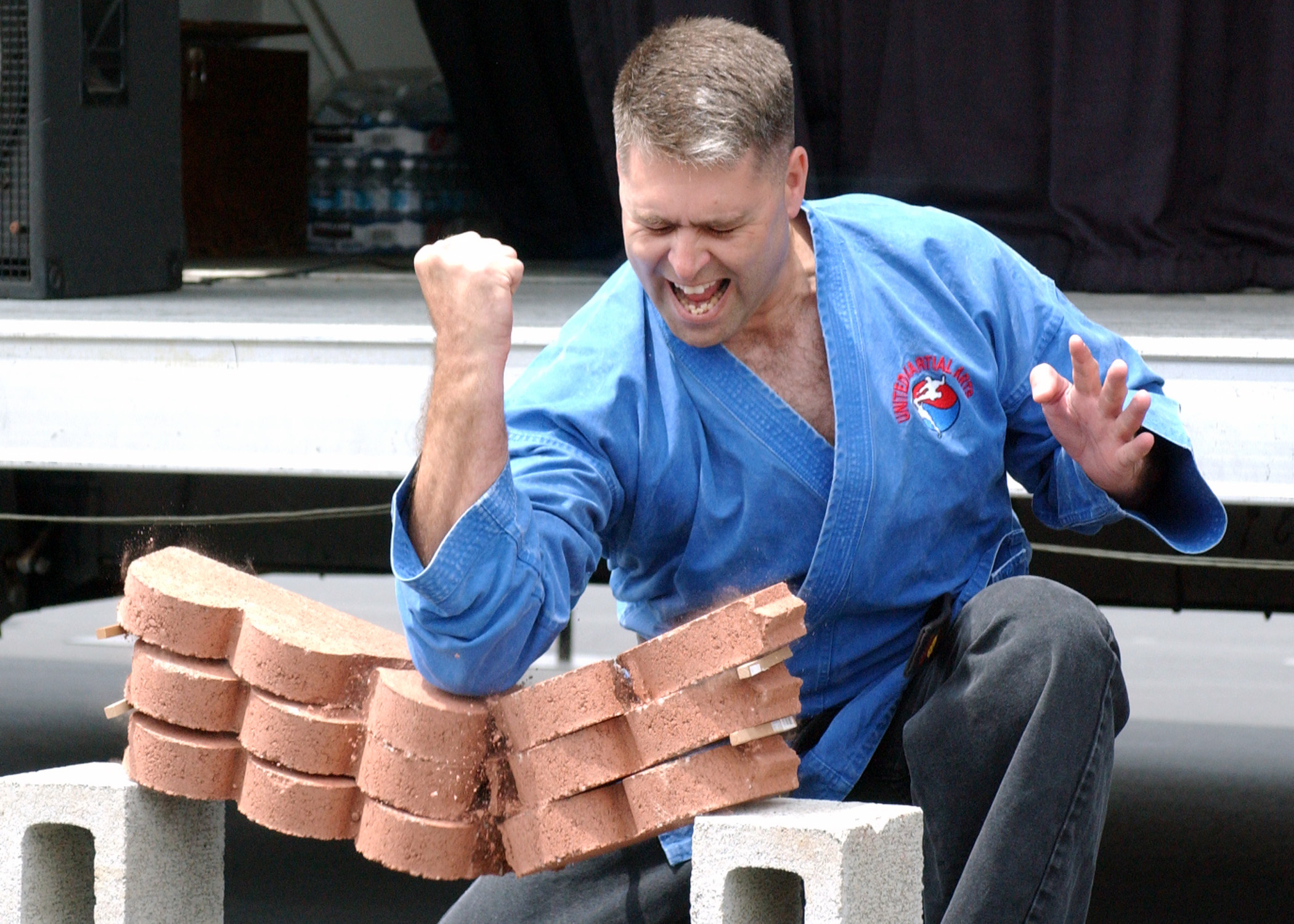 Master Sgt. Brian E. Schaefer demonstrating Martial arts breaking techniques at the Multi-Cultural Heritage Day celebration aboard Marine Corps Air Station Miramar